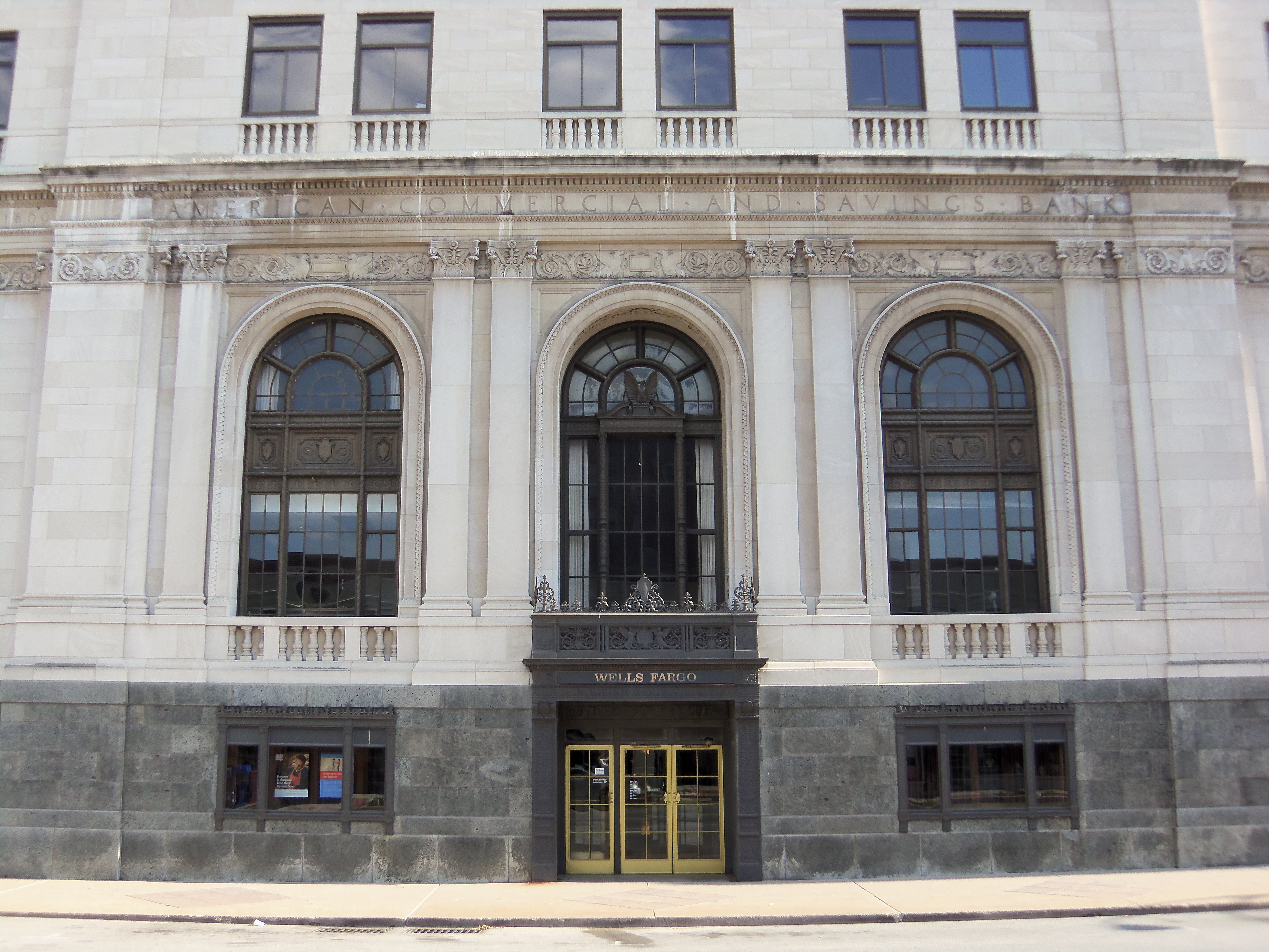 Main level of the Davenport Bank & Trust building, formerly Wells Fargo, in Davenport, Iowa.